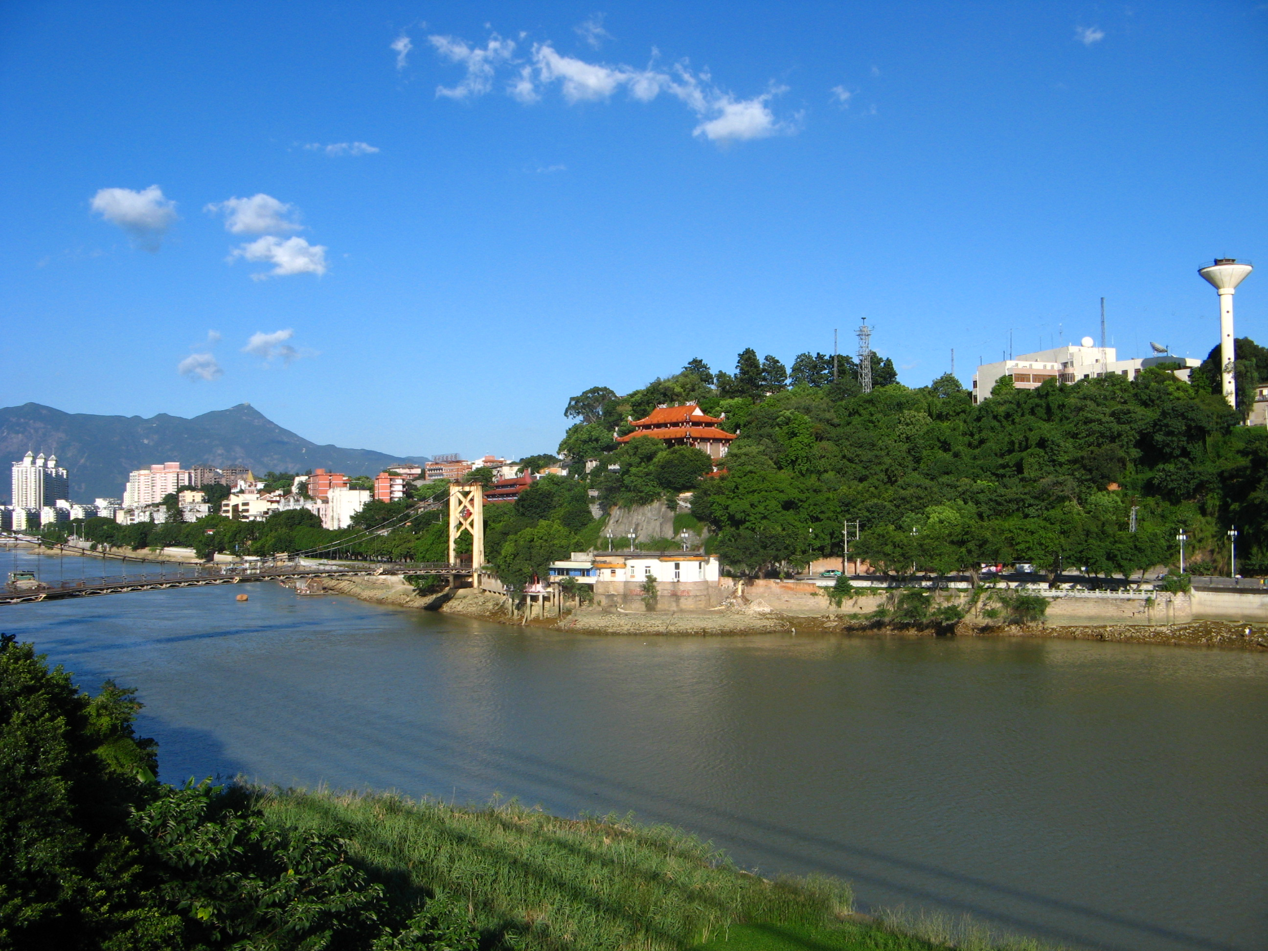 River Min and Chongseng Hill